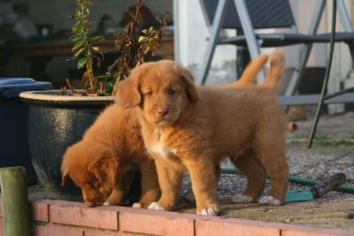 Nova Scotia Duck Tolling Retriever – Rhineferry's Namid Indian Dancer